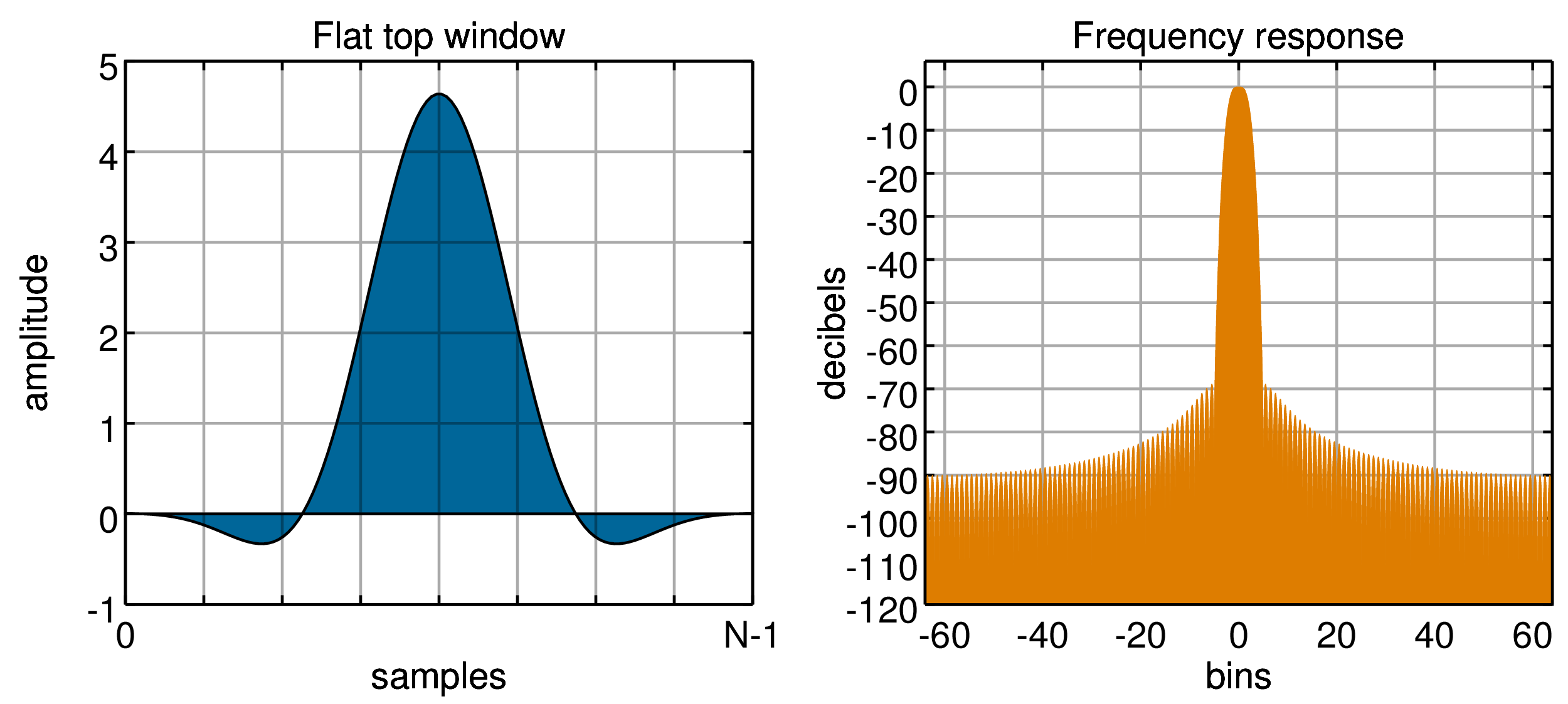 flat-top window and frequency response